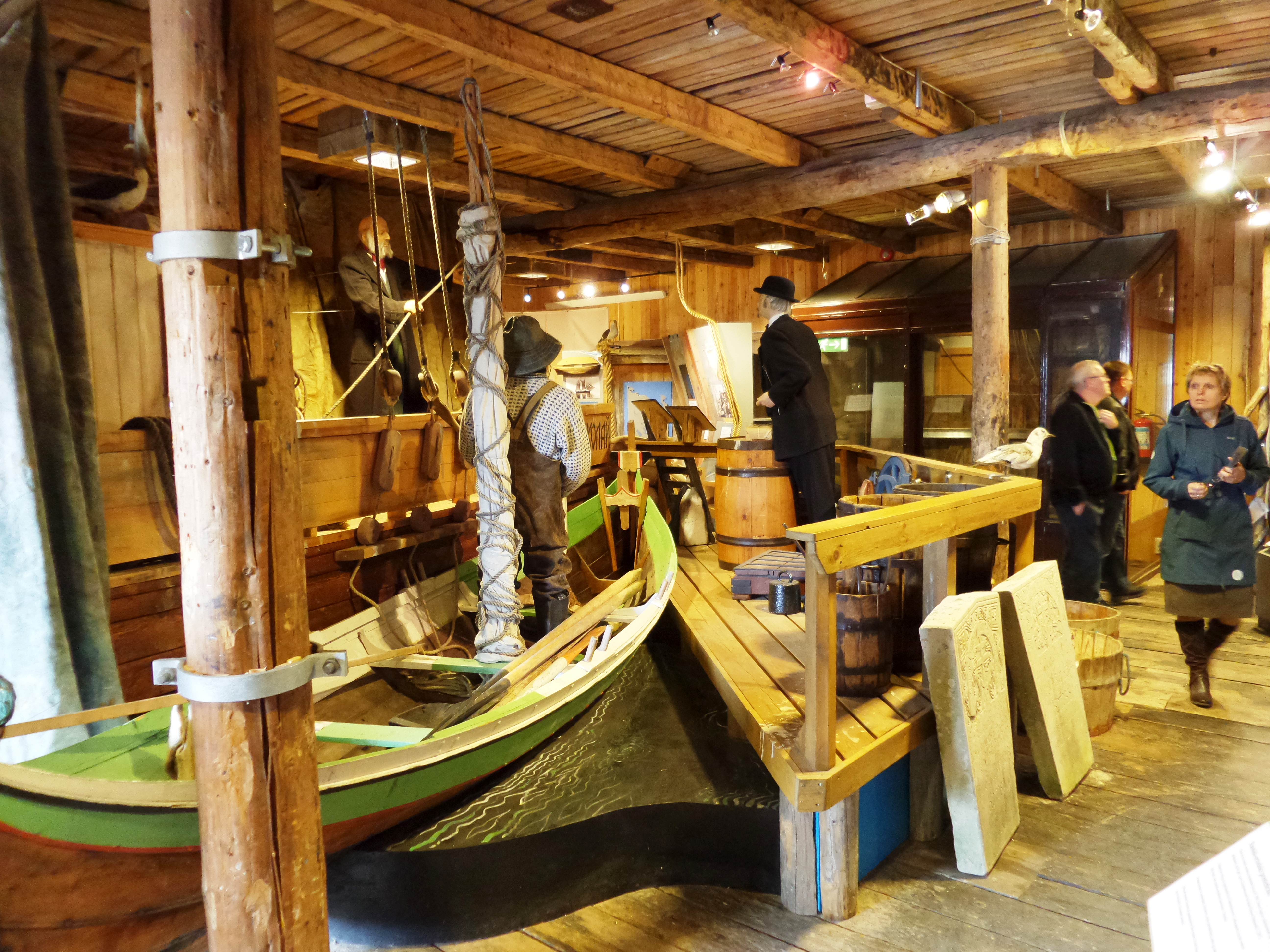 The Pomor Museum in Vardø